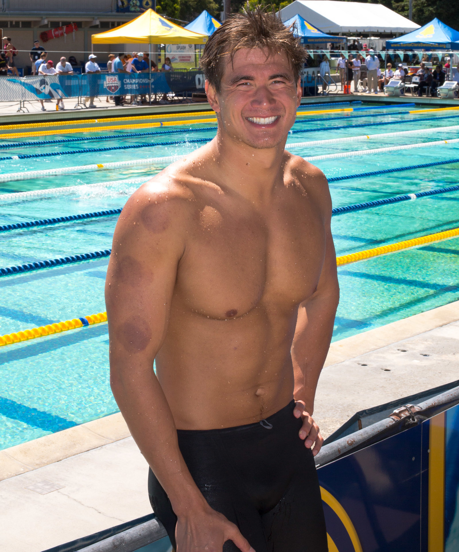 Nathan Adrian portrait